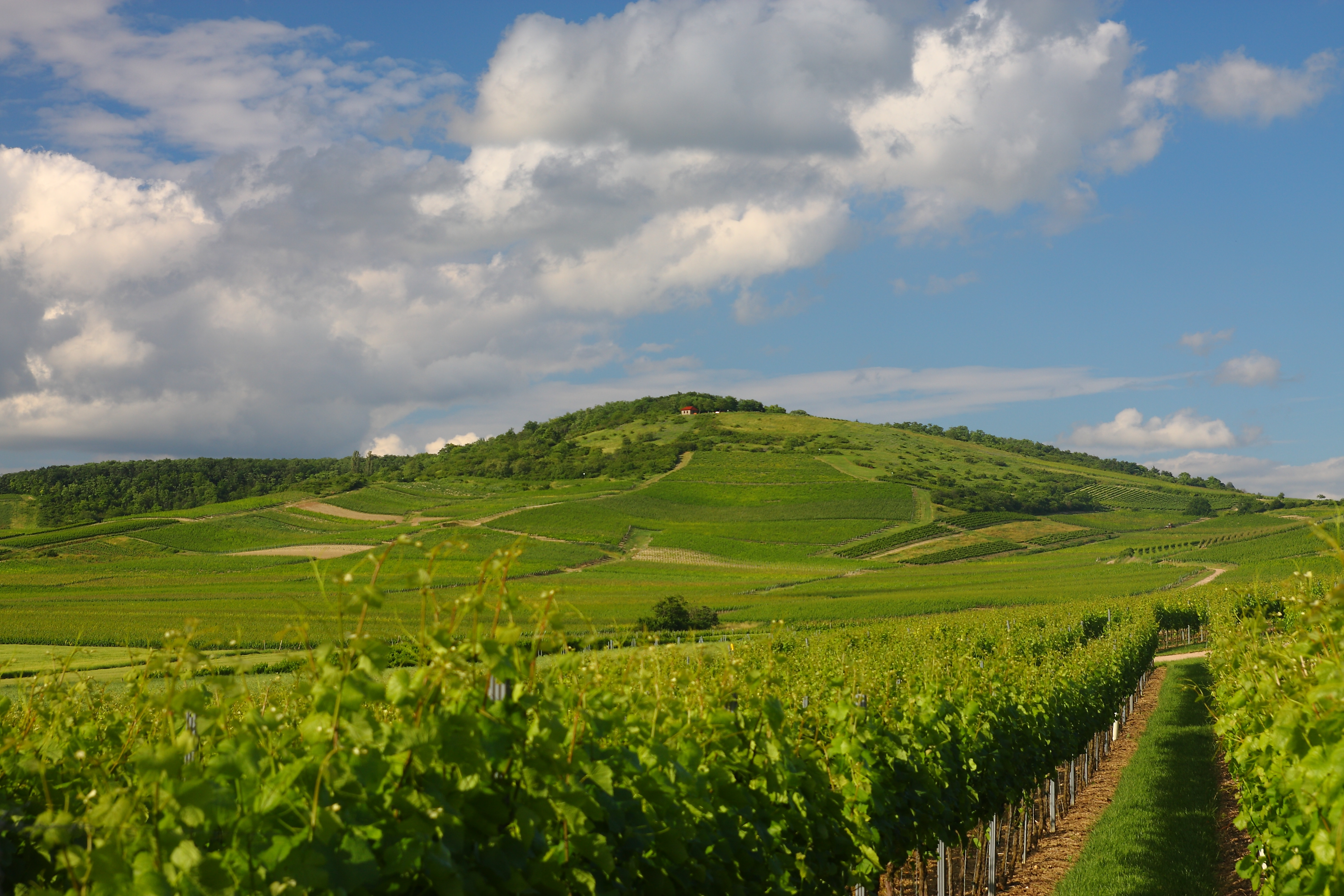 View on the Zotzenheim Horn (Napoleons Height), 270m absolute altitude, part of the Rhine Hessian Hill Country within Rhineland-Palatinate, Germany. Coordinates: 49° 52' 58.14" N, 7° 59' 17.78" E